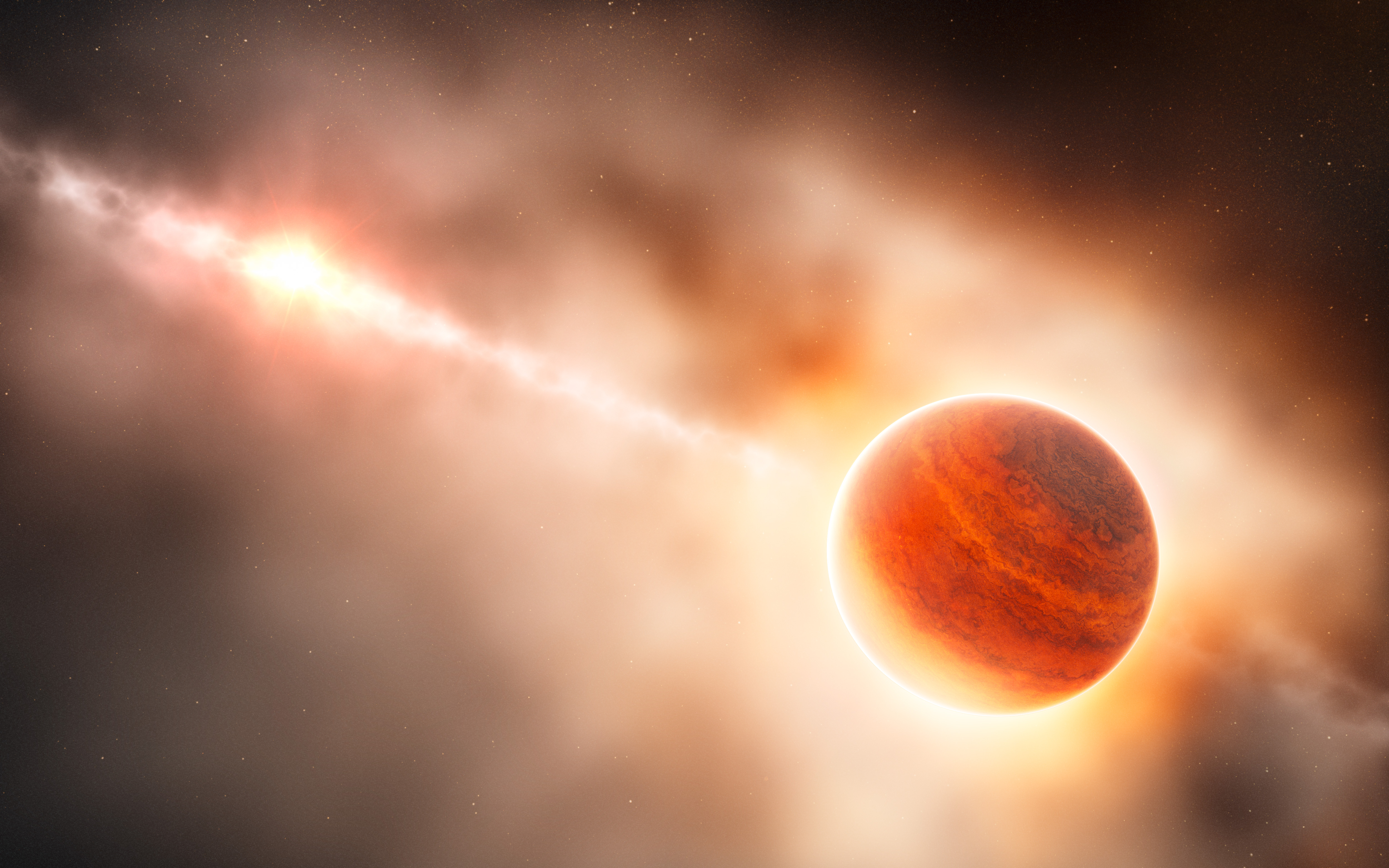 This artist’s impression shows the formation of a gas giant planet in the ring of dust around the young star HD 100546. This system is also suspected to contain another large planet orbiting closer to the star. The newly-discovered object lies about 70 times further from its star than the Earth does from the Sun. This protoplanet is surrounded by a thick cloud of material so that, seen from this position, its star almost invisible and red in colour because of the scattering of light from the dust.